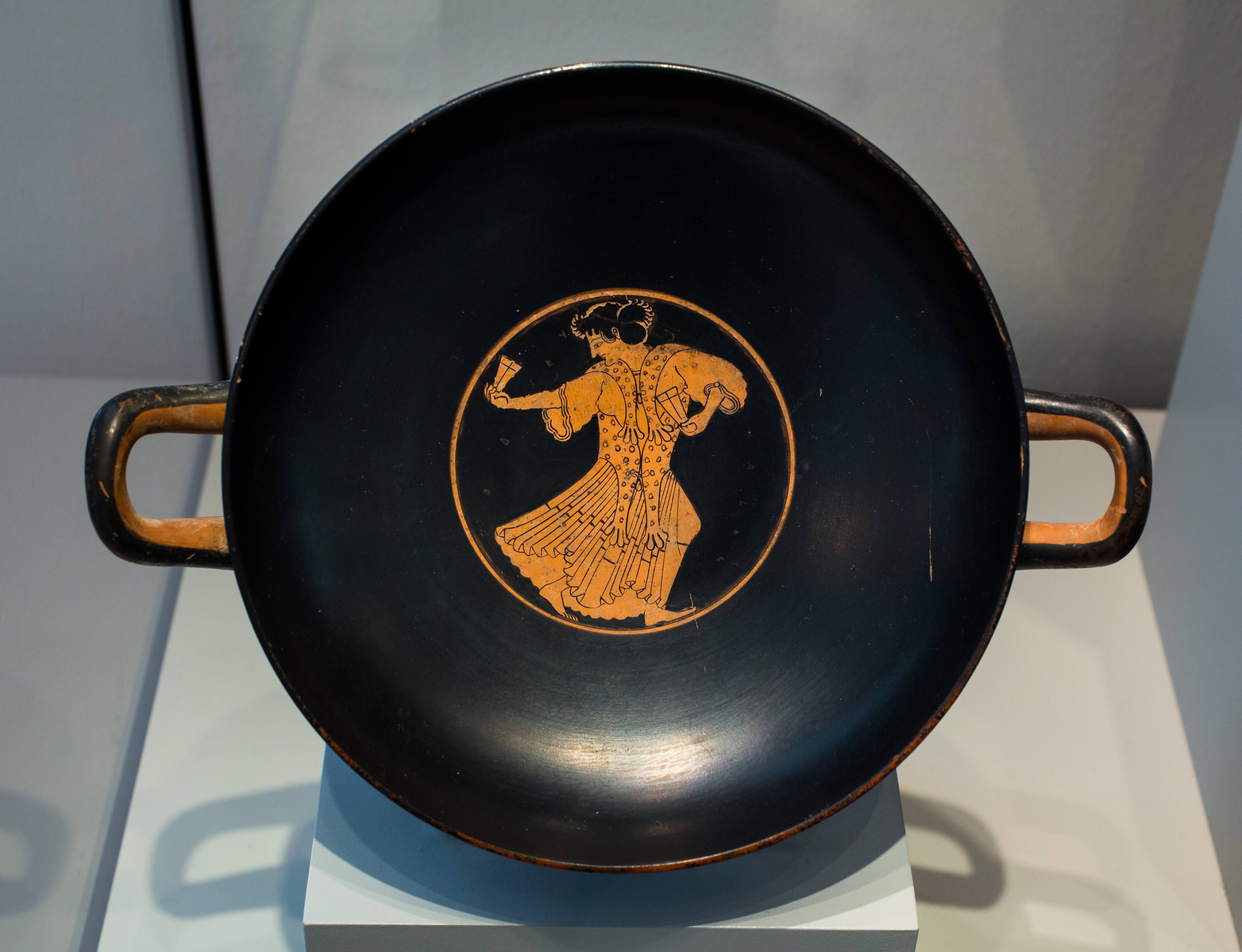 object type / vase shape: attic red figure cup (kylix) - description interior: dancing maenad with krotala; inscription: PEDIEUS KALOS - exterior not decorated (black) - production place: Athens - painter: Pedieus Painter (perhaps a later stage in the work of Skythes) - period / date: late archaic, ca. 520-510 BC - material: pottery (clay) - findspot: Athens - museum / inventory number: Berlin, Altes Museum (Antikensammlung) 4855 - bibliography: John D. Beazley, Attic Red-Figure Vase-Painters, Oxford 1963(2), 86, 5 - Please note: The above museum permits photography of its exhibits for private, educational, scientific, non-commercial purposes. If you intend to use the photo for any commercial aime, please contact the museum and ask for permission.